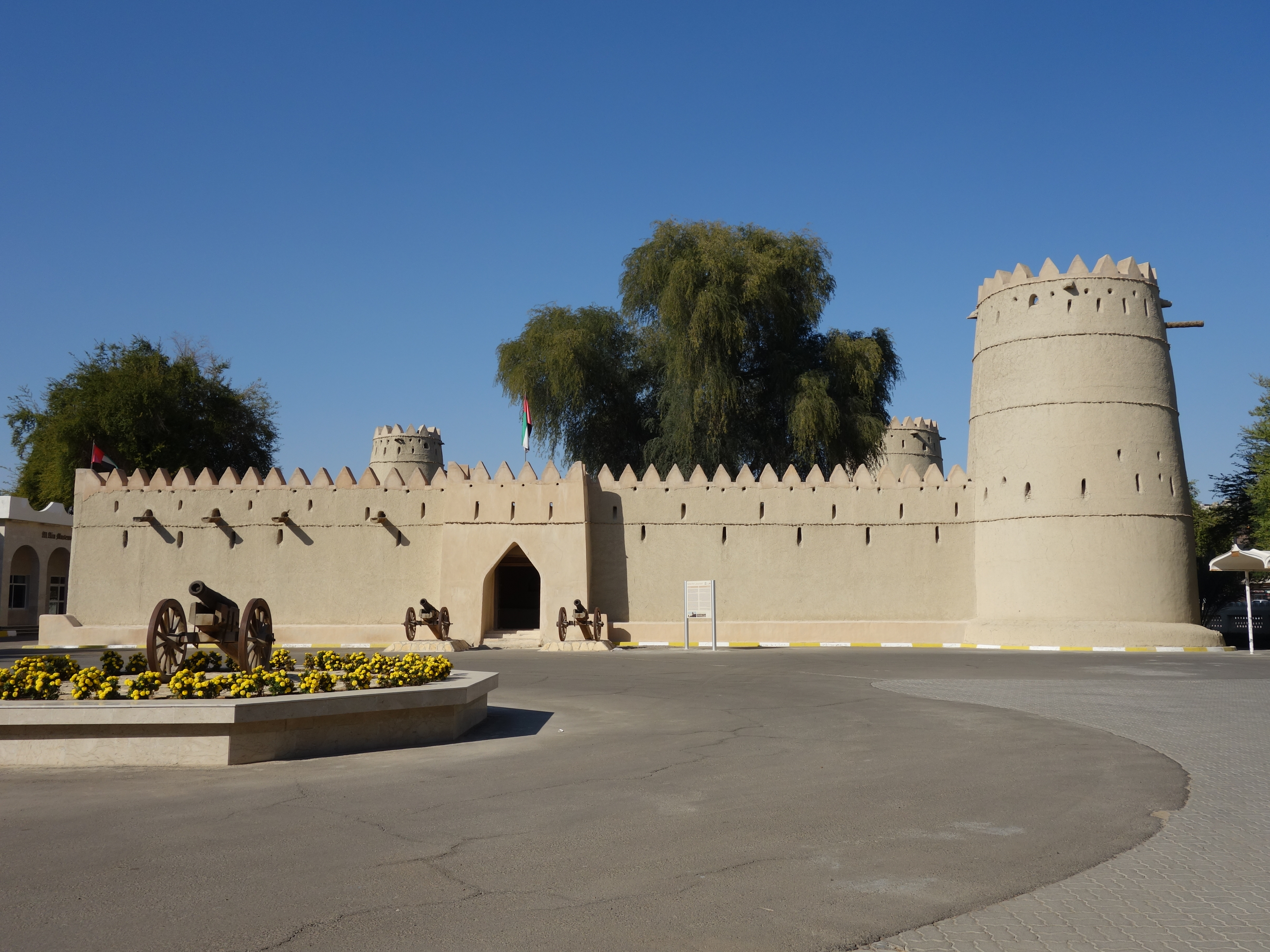 Al Hosn Fort